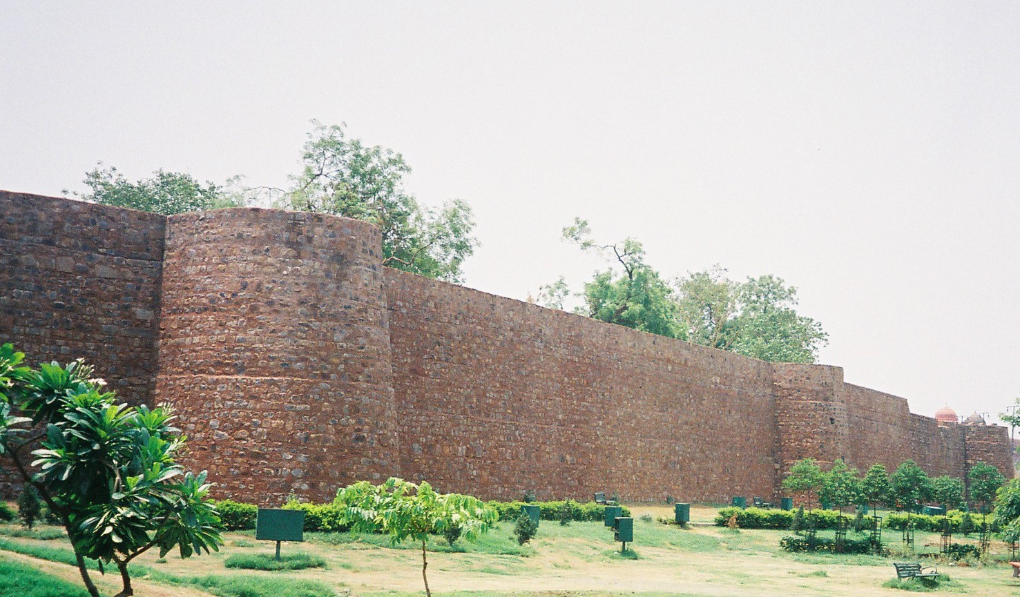 View from Outside the Salimgarh Fort